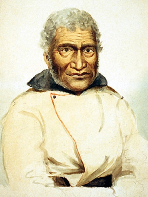 In 1846 the Canadian artist Paul Kane visited Fort Vancouver, met John Coxe Naukane, and painted his portrait in a handsome white greatcoat with red piping. Inscribed at the base of the portrait is Cox’s claim that stretches across the entire span of Northwest History